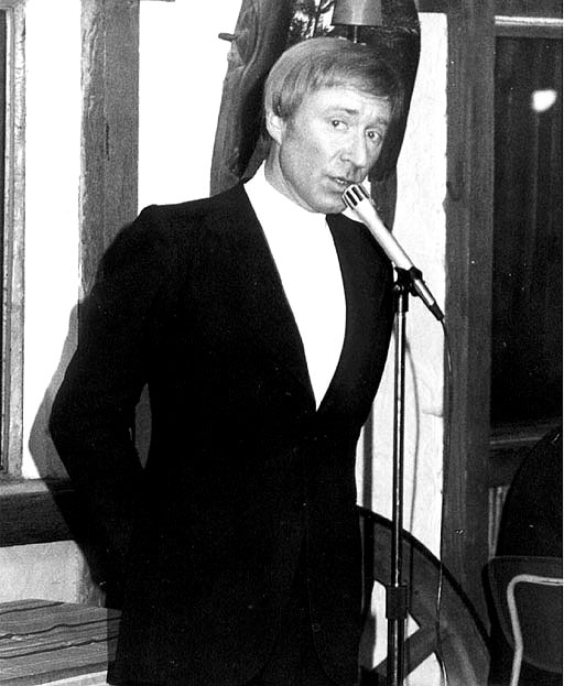 A show in a school,1975